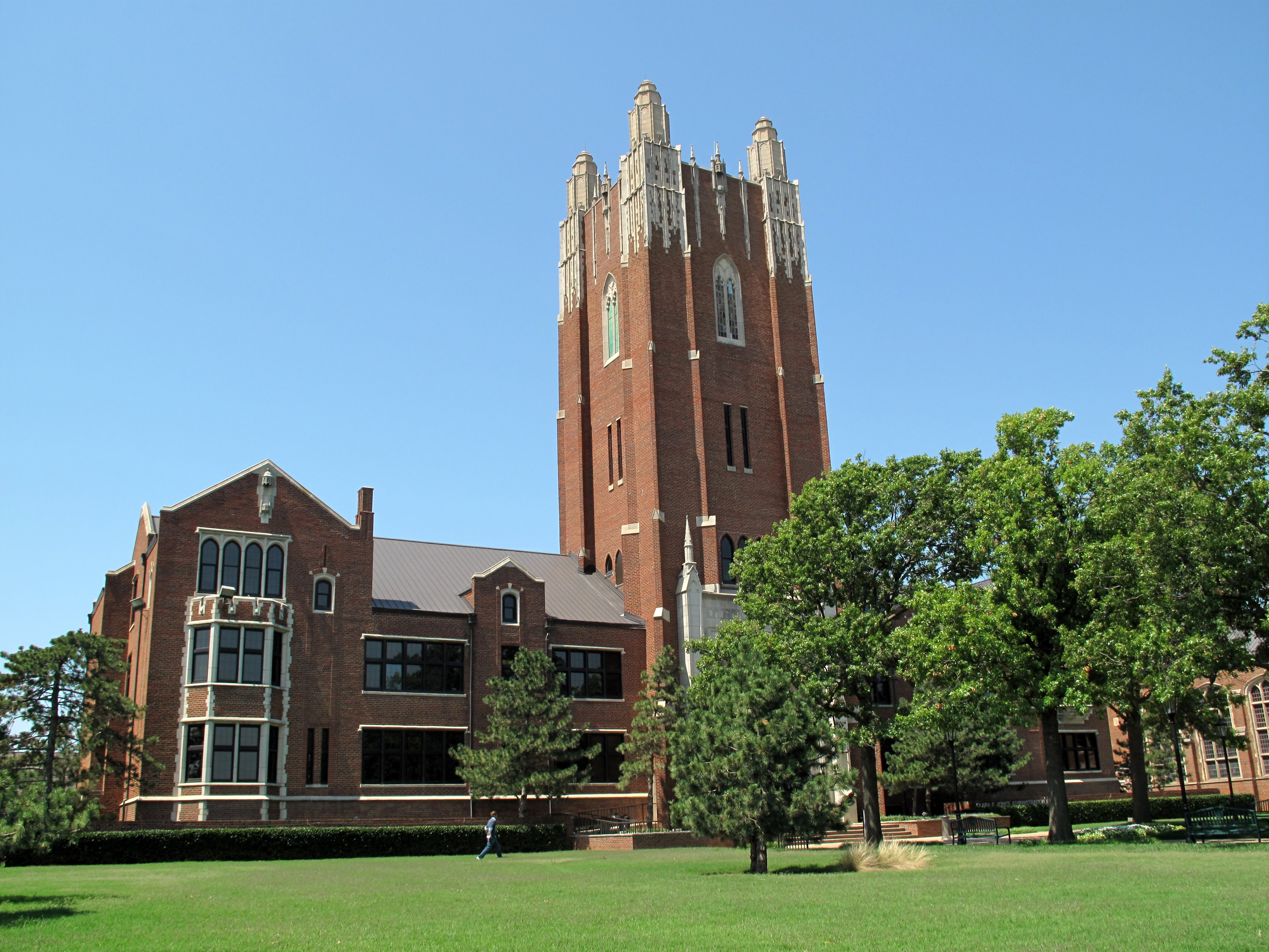 The Administration Building of Oklahoma City University, part of the campus historic district listed on the NRHP.